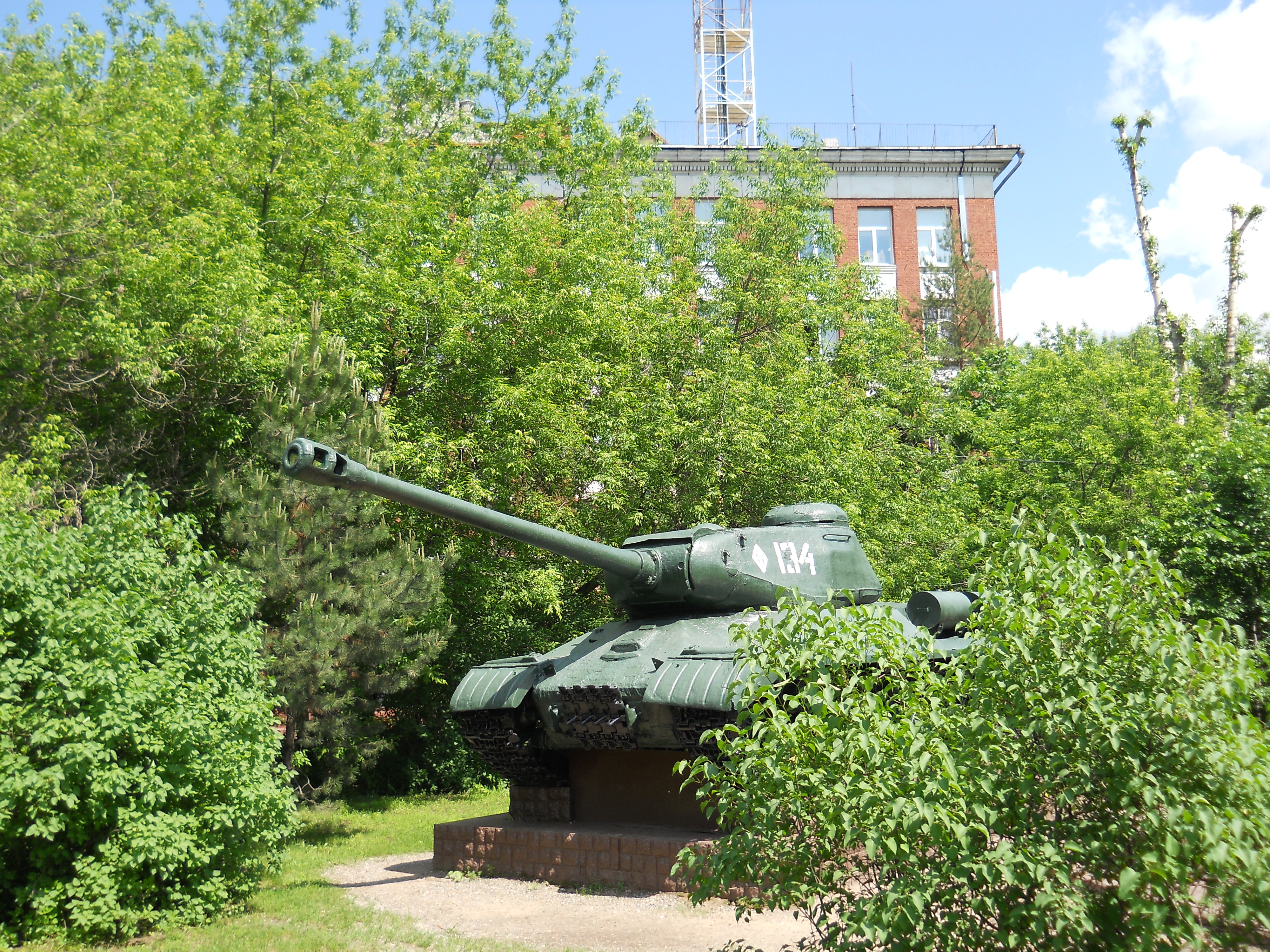 Tamanskaya street, Moscow.